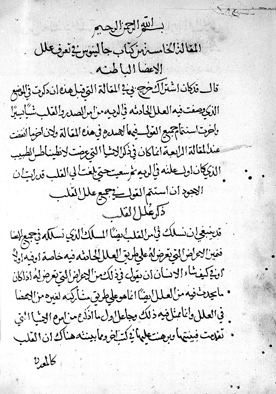 Text on diseases of the heart Asian Collection Keywords: coronary disease, arabic; history of medicine, arabic; Hunayn ibn Ishaq al-'Ibadi